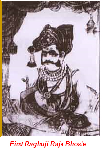 Raghuji Raje Bhosle